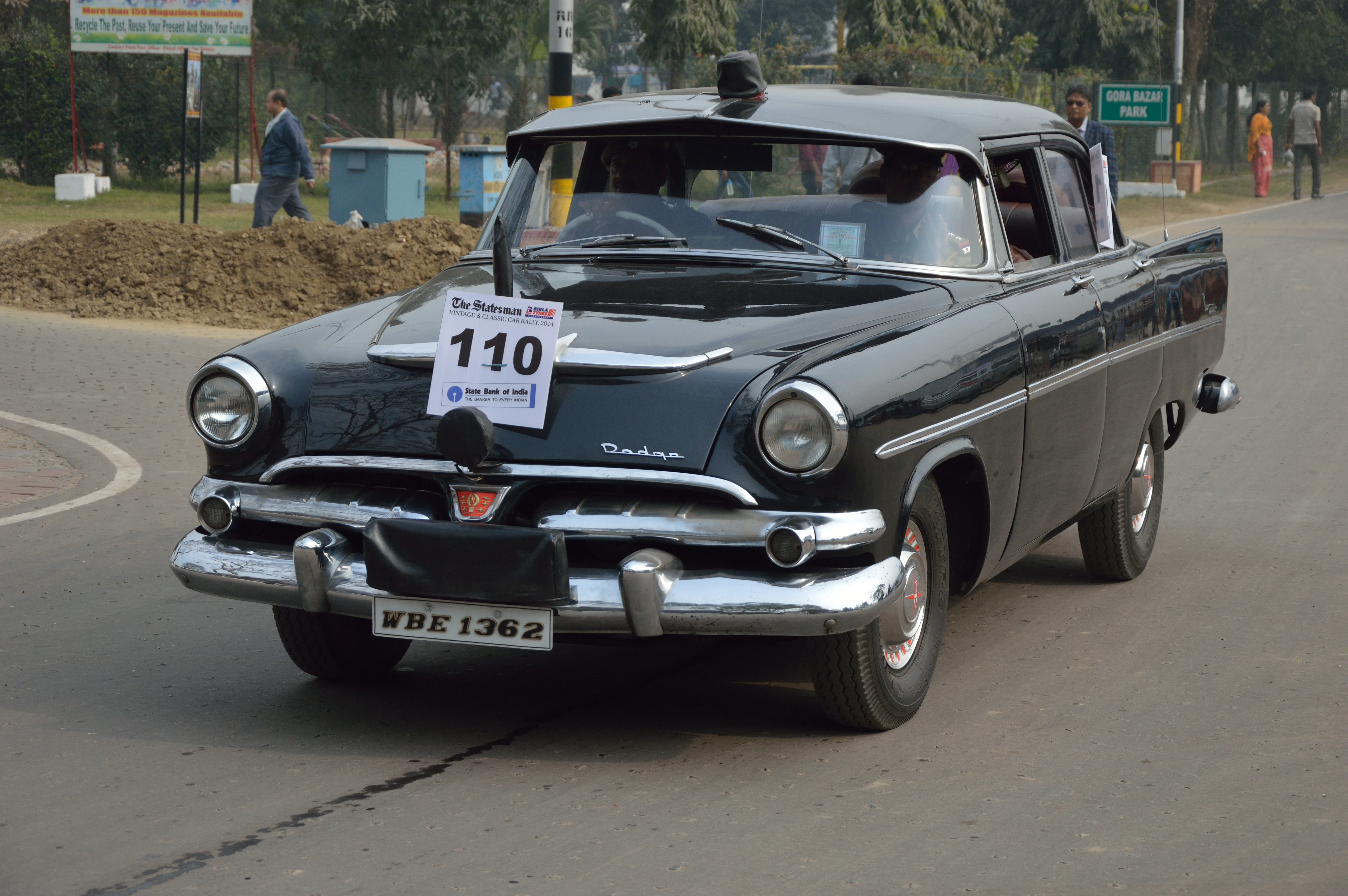 This classic car was exhibited and took part during ‘The Statesman Vintage & Classic Car Rally 2014’at the Eastern Command Sports Stadium of Fort William, Kolkata. The route was Strand road, Esplanade, Central avenue, Bhupen Bose avenue, Shaymbazaar five points crossing, APC Roy road, Moulali, CIT road, National Medical College, Park Circus seven points, Syed Amir Ali Avenue, Gariahat, Rashbehari Avenue, SP Mukherjee road, Hazra crossing, Ashutosh Mukherjee road, Exide crossing, AJC Bose road again Strand road and back to the ECS stadium. The rally was held at the morning on Sunday, 19 January 2013 at the ECS Stadium, where 175 entrants were registered with cars and bikes manufactured from 1906 to 1971. This one day festival usually takes place on the second Sunday of every January (but this time it is observed on third Sunday) in Kolkata since 1968 with full of period costume and cultural period pieces. This classic car is owned by Commissioner of Police, Kolkata and driven by Mihir Kanti Majumder.